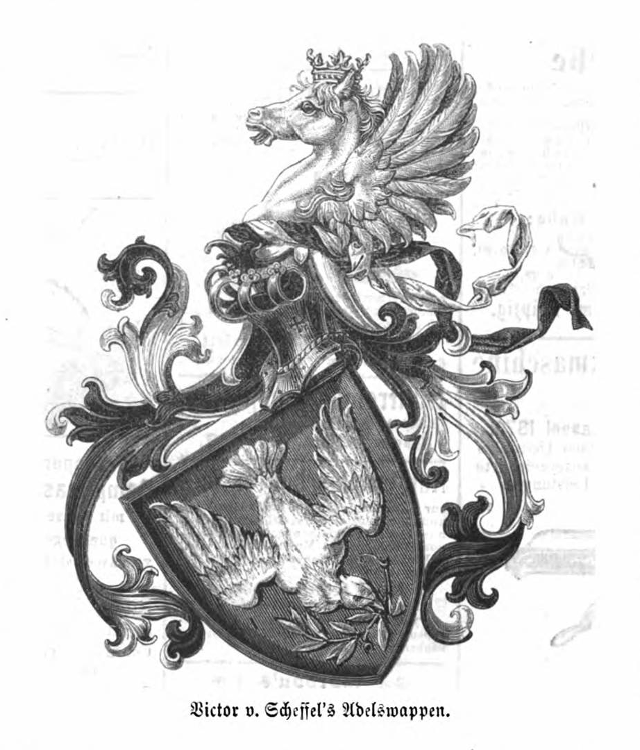 coat of arms Viktor von Scheffel